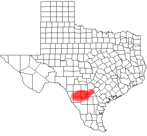 Map of the Winter Garden Region of Texas based on the map from the USGS Ground Water Survey [1]; created with the GIMP. Made by User:Acntx.